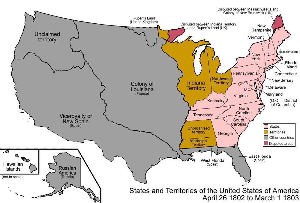 Map of the states and territories of the United States as it was from 1802 to March 1803. On April 26 1802, Georgia ceded its western land to the federal government. On March 1 1803, part of Northwest Territory was admitted as the state of Ohio; the rest was joined to Indiana Territory.